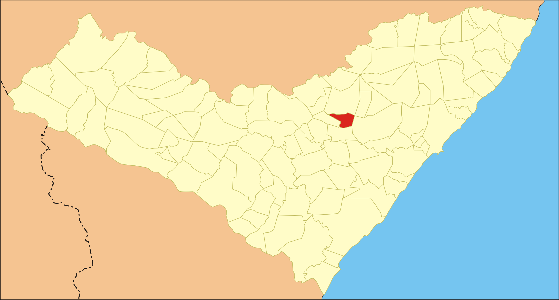 City localization in Alagoas